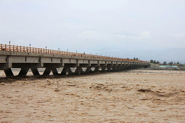 جریان سیلابی هلیل در جیرفت